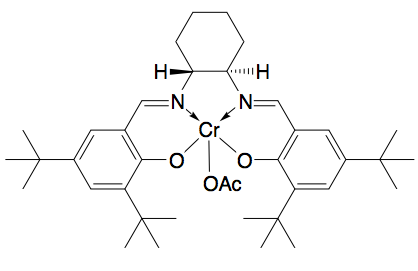 jacobsen (salen)-Cr catalyst for hkr of temrinal epoxides